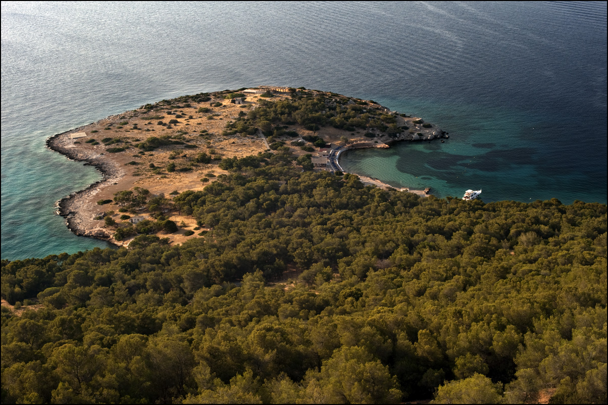 Panoramic view of Moni island, Aegina, Greece.